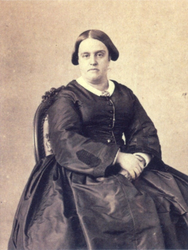 Princess Januária of Brazil, 1865.